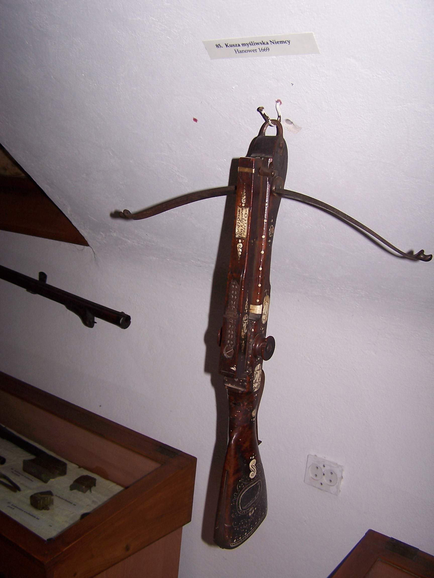 Photo by Piotrus. German hunting Crossbow on display in Cistercians monastery museum in Szczyrzyc, Poland. From Hannover, 1669. Opactwo cystersów w Szczyrzycu